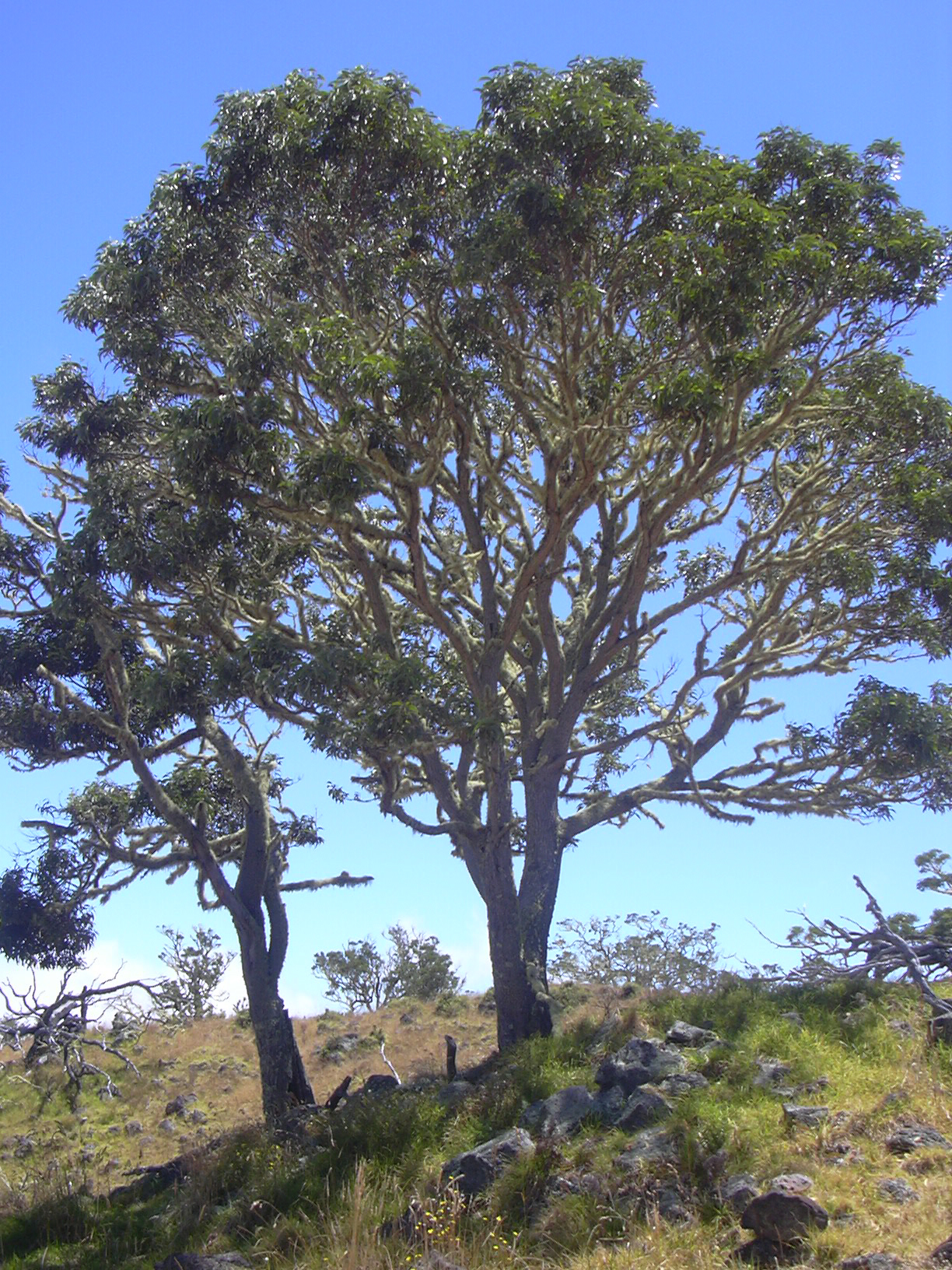 Acacia koa (habit). Location: Hawaii, Puu Mali